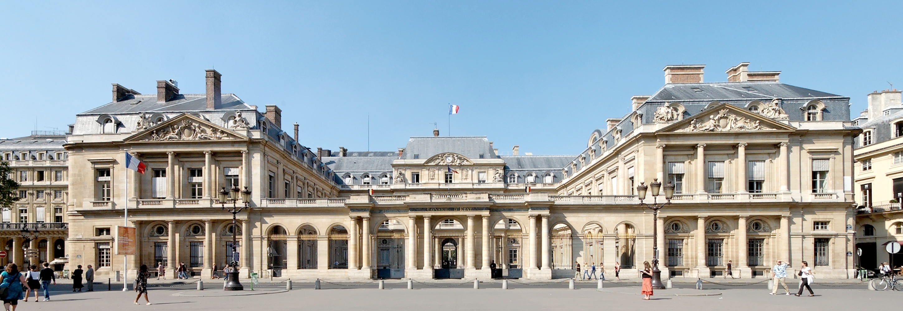 French Conseil d'État (Council of State, administrative court), located since 1871 in the main building of the Palais-Royal, in Paris.